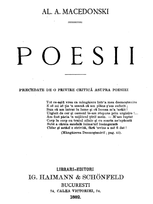 Alexandru Macedonski - First page of Poesii, published by IG. Haimann & Schonfeld in 1882.